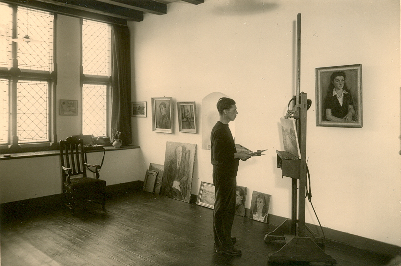 of Jef Schipper located in the Helpoort at Maastricht, June 1947